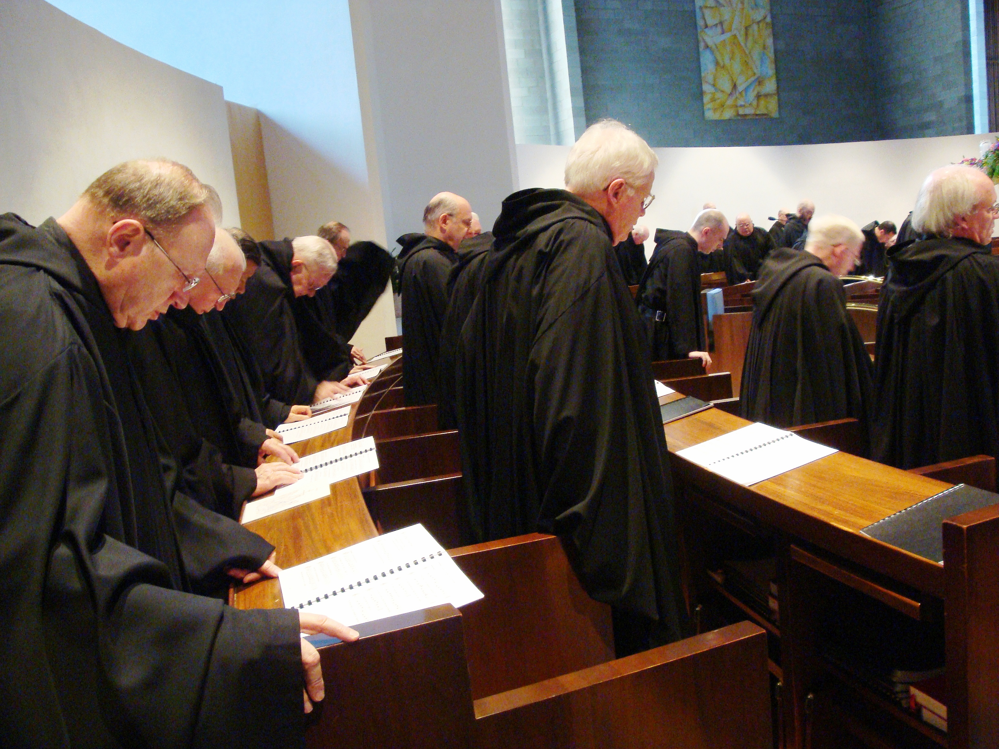 Roman Catholic monks of the Order of Saint Benedict singing Vespers on Holy Saturday at St. Mary's Abbey in Morristown, New Jersey.